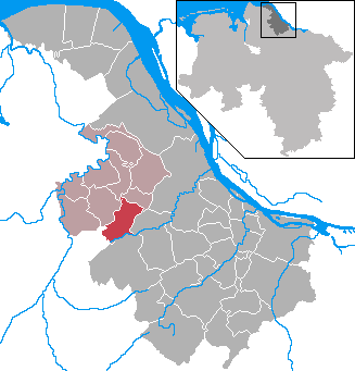 This map shows the area of the Gemeinde (municipality) Heinbockel in the Landkreis (district) Stade, Lower Saxony, Germany.